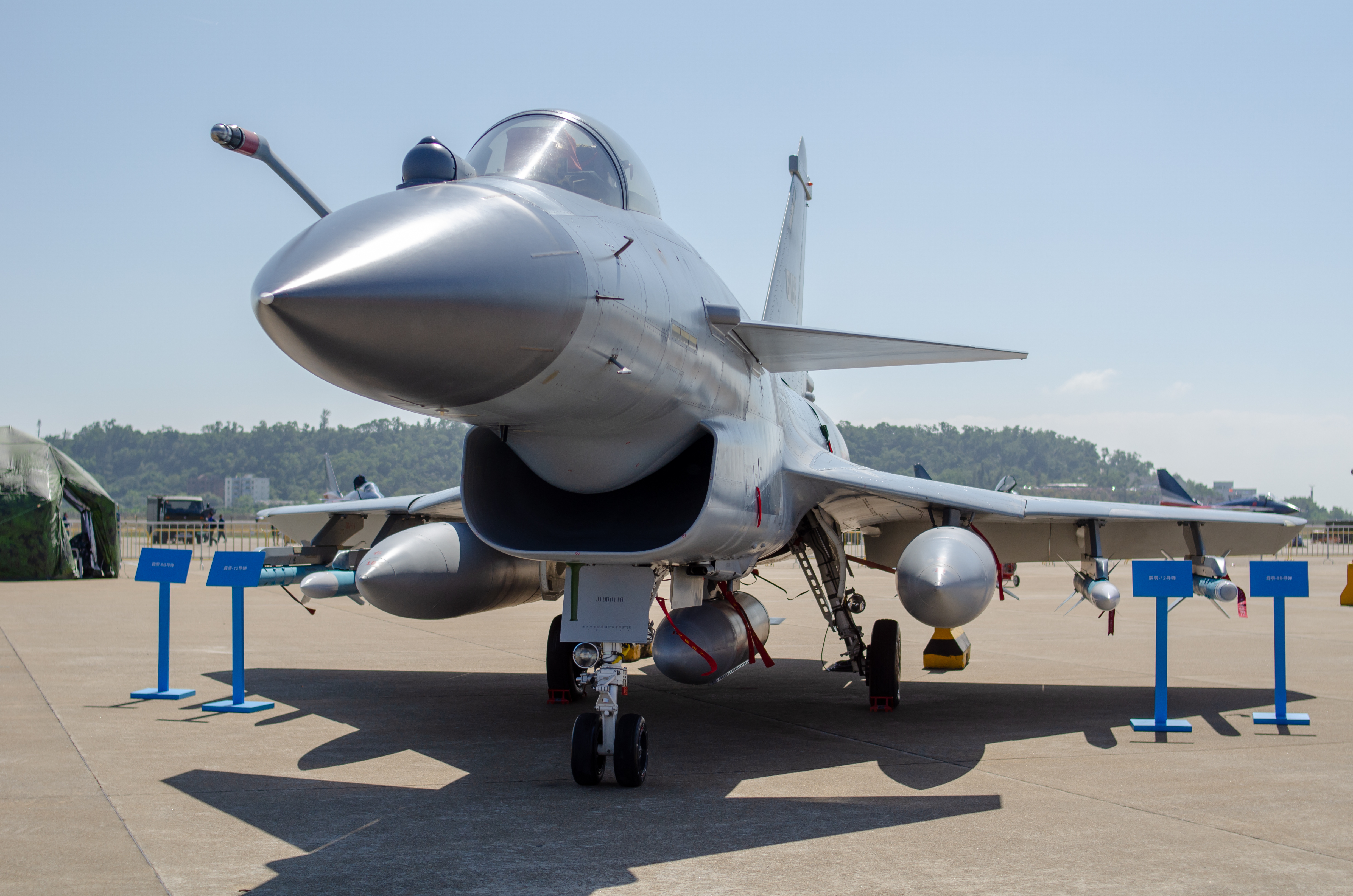 PLAAF J-10B with PL-12 and PL-8B at ZhuHai Air Show 2018